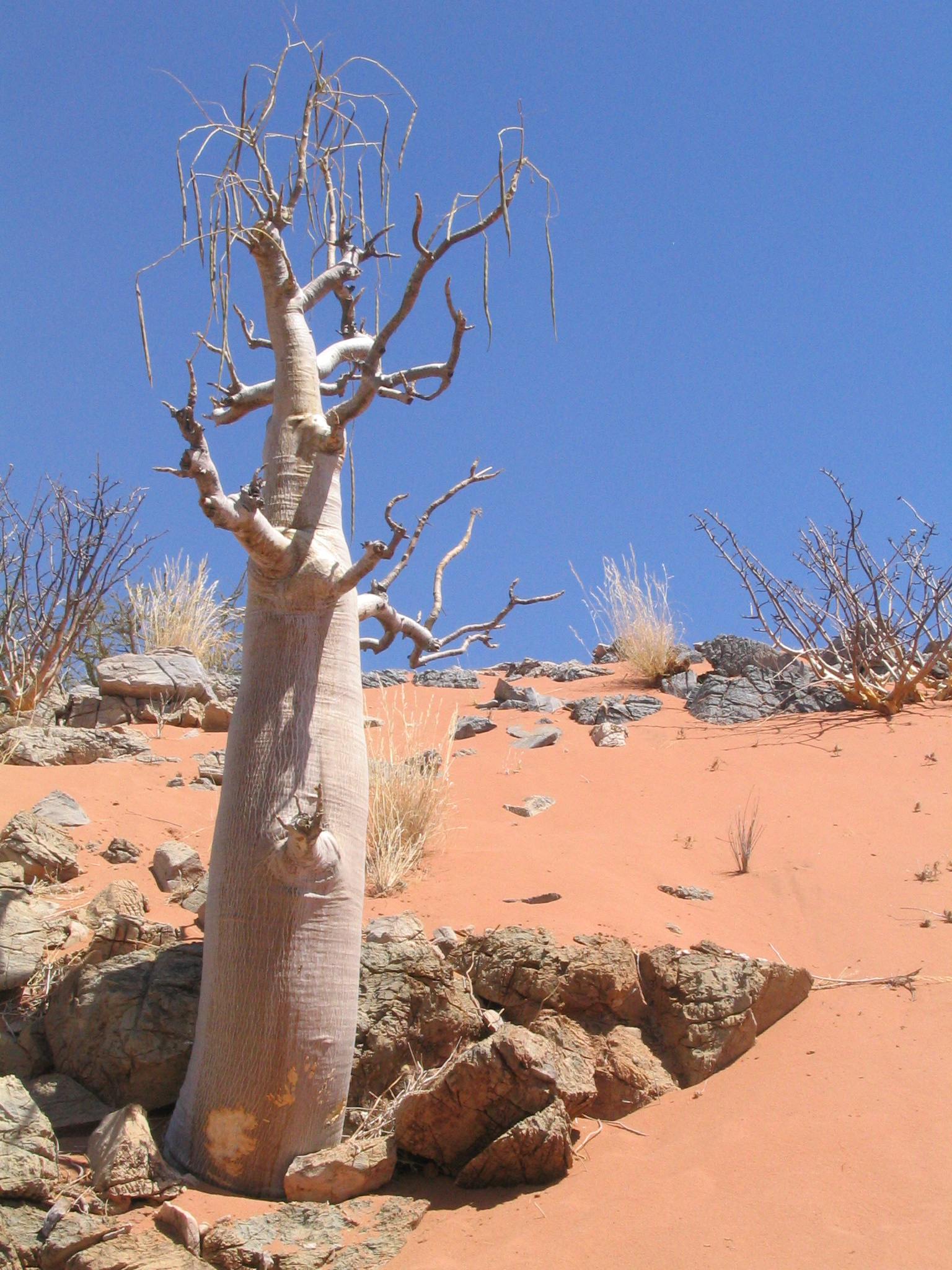 Moringa tree bearing fruit, Namiba